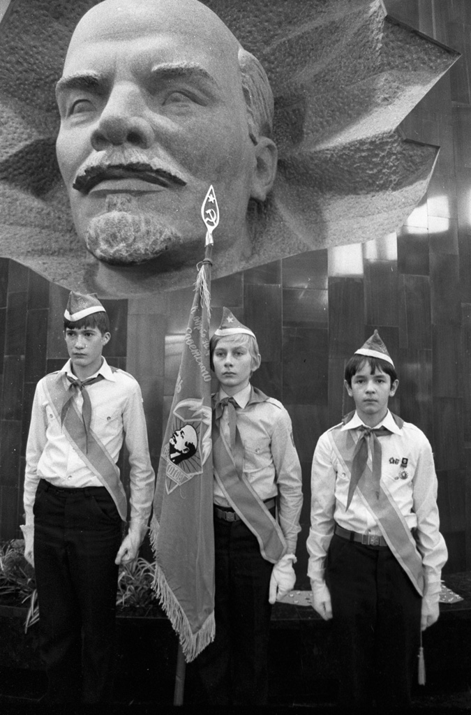 “Children guards of honor”. Young Pioneer guards of honor at a museum pavilion of the train that brought Lenin's remains to Moscow in 1924.